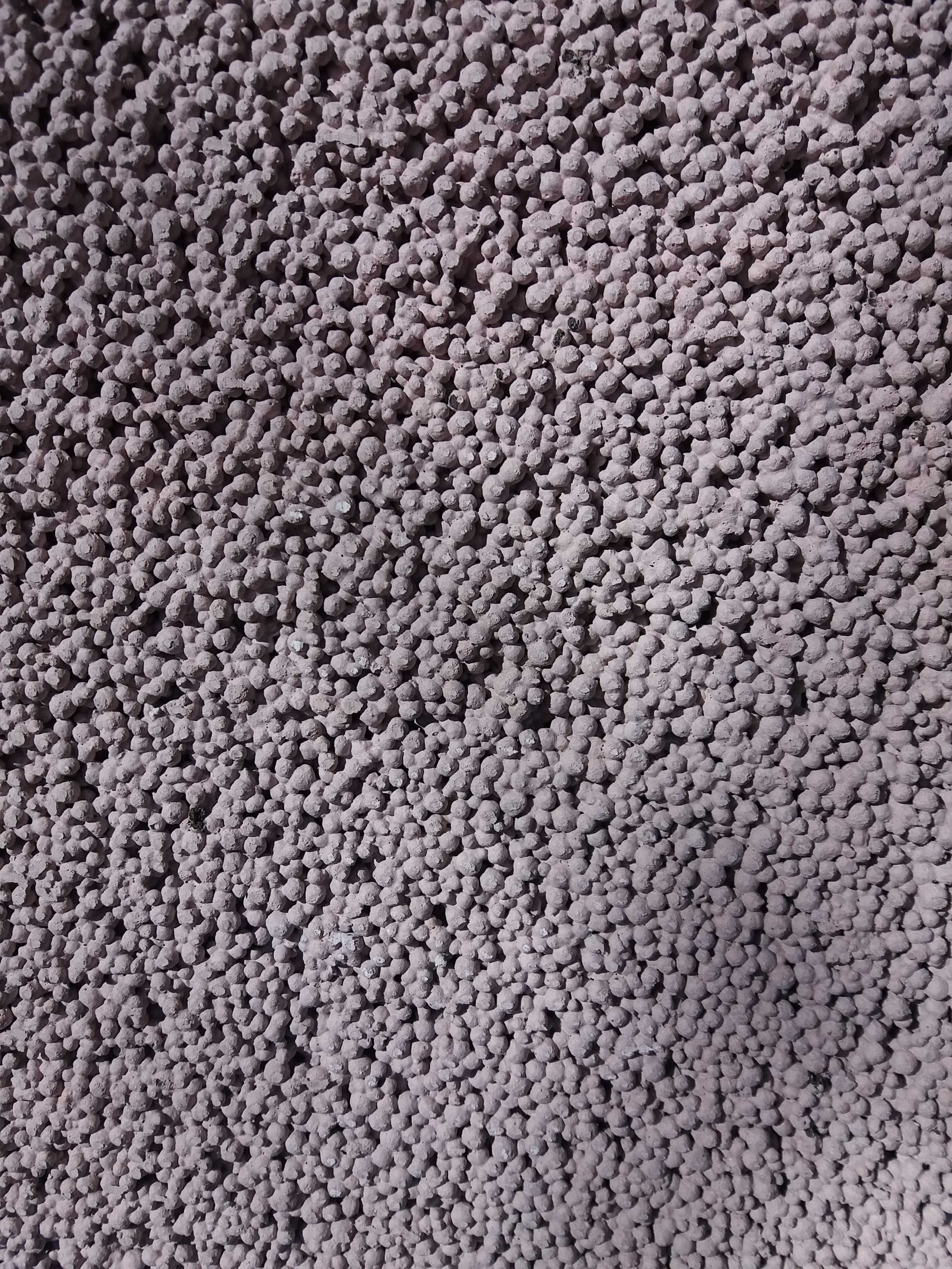 The surface of a precasted wall with expanded clay pebbles photo: RAUMBUILD